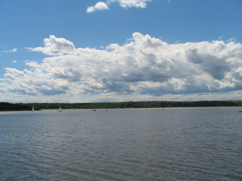 Sailboats on Glenmore Reservoir in Calgary, Alberta Author: User:Qyd